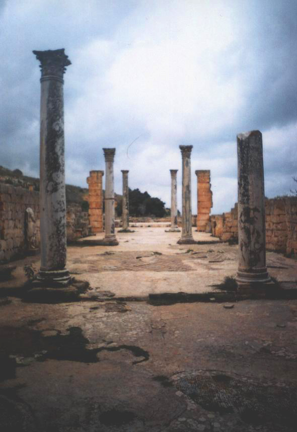 Ruins of Cyrene, Libya